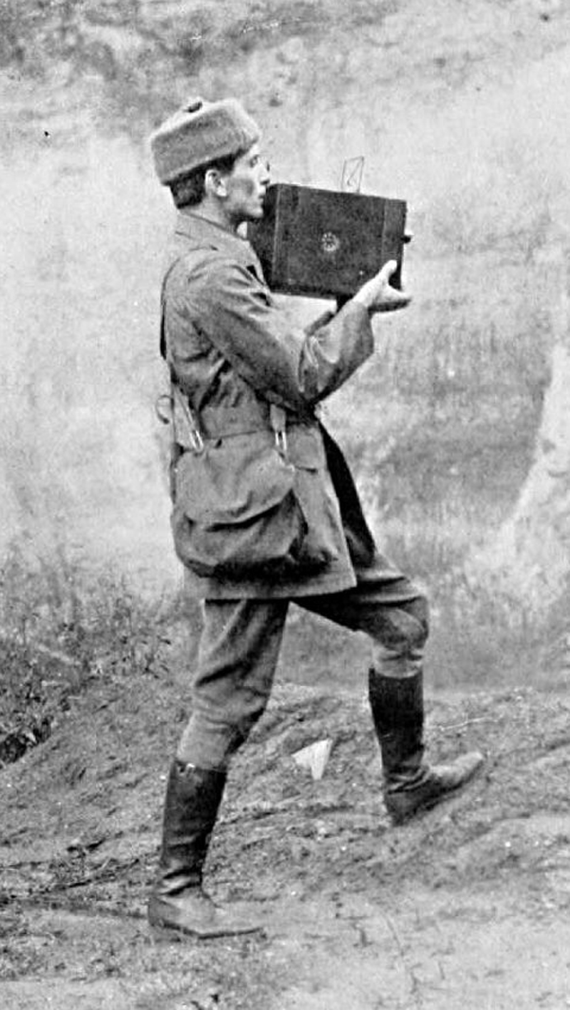 Geoffrey H. Malins with aeroscope in Belgium 1914.